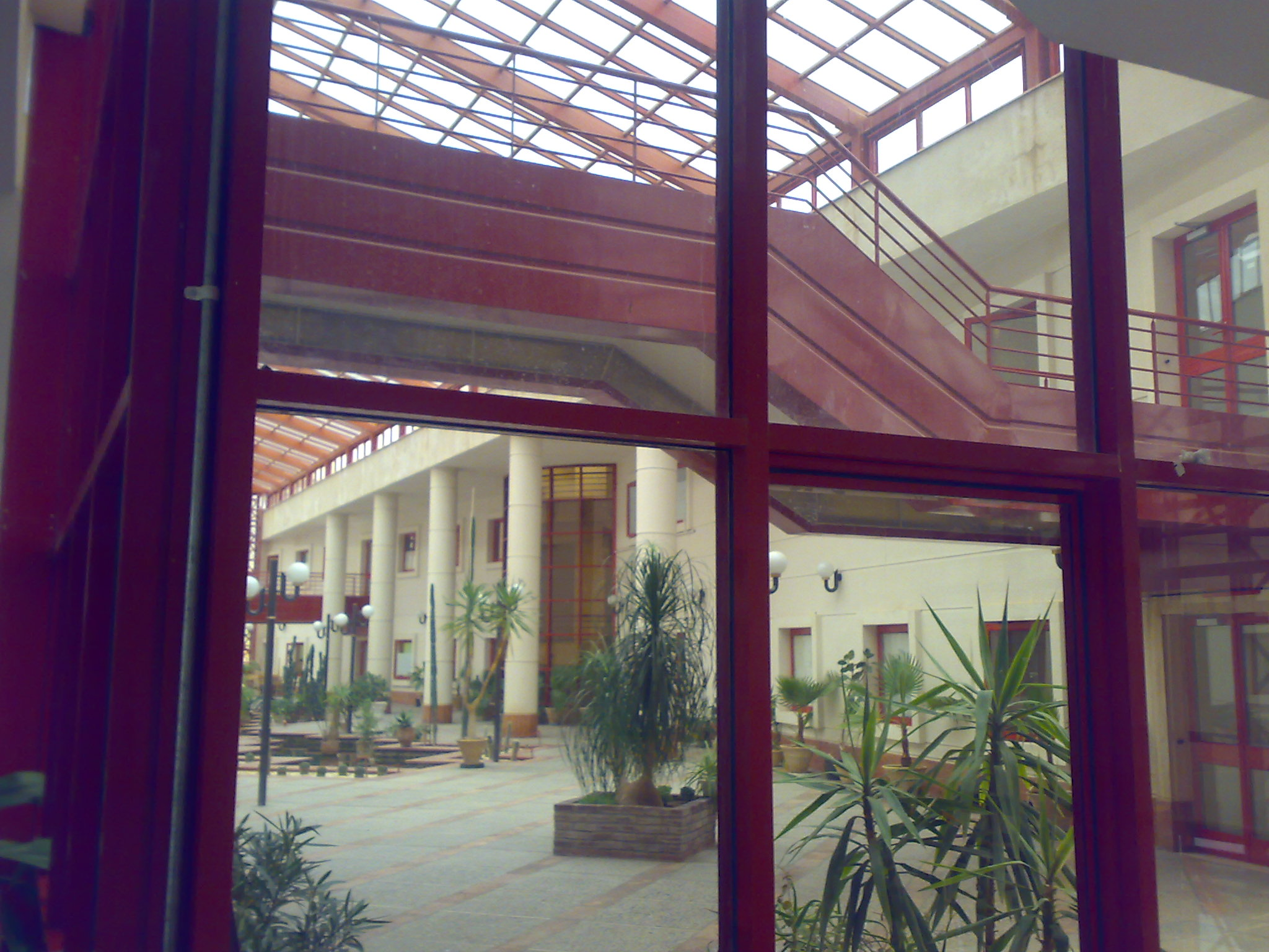 Institute for Advanced Studies in Basic Sciences in Zanjan(IASBS) ,مرکز تحصیلات تکمیلی در علوم پایه